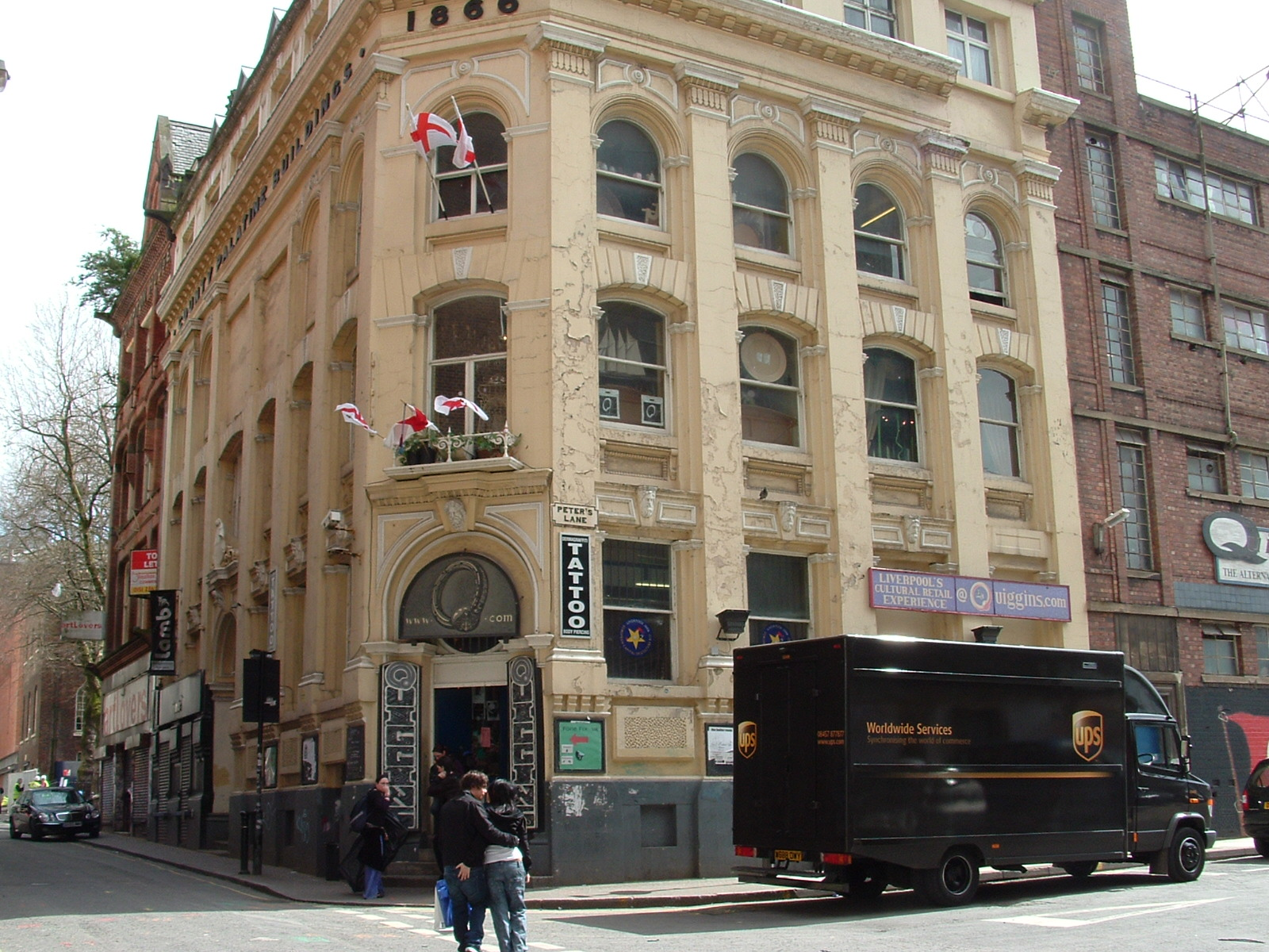 a shot of the tragically soon-to-be-demolished Quiggins. Liverpool is losing a real gem.